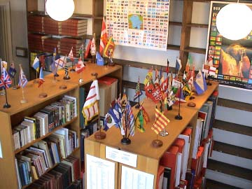 photograph from Institute website, use granted by permission of Institute Chairman.